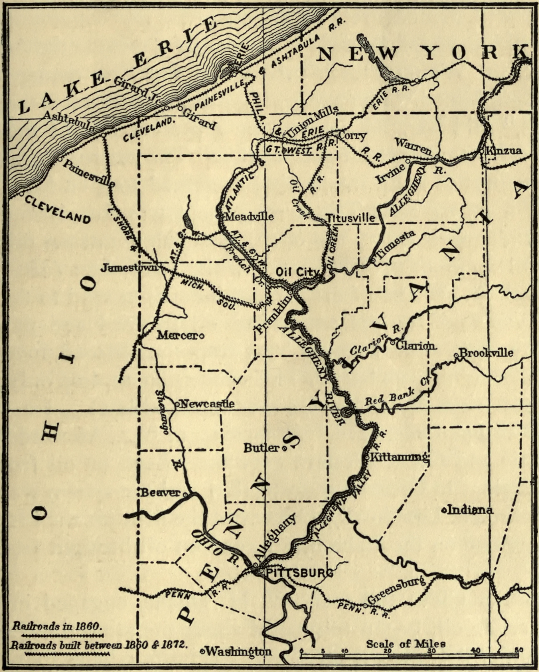 Map of Northwestern Pennsylvania, showing the relation of the Oil Region to the railroads in 1859, when oil was 'discovered', as well as lines built between 1860 & 1872.